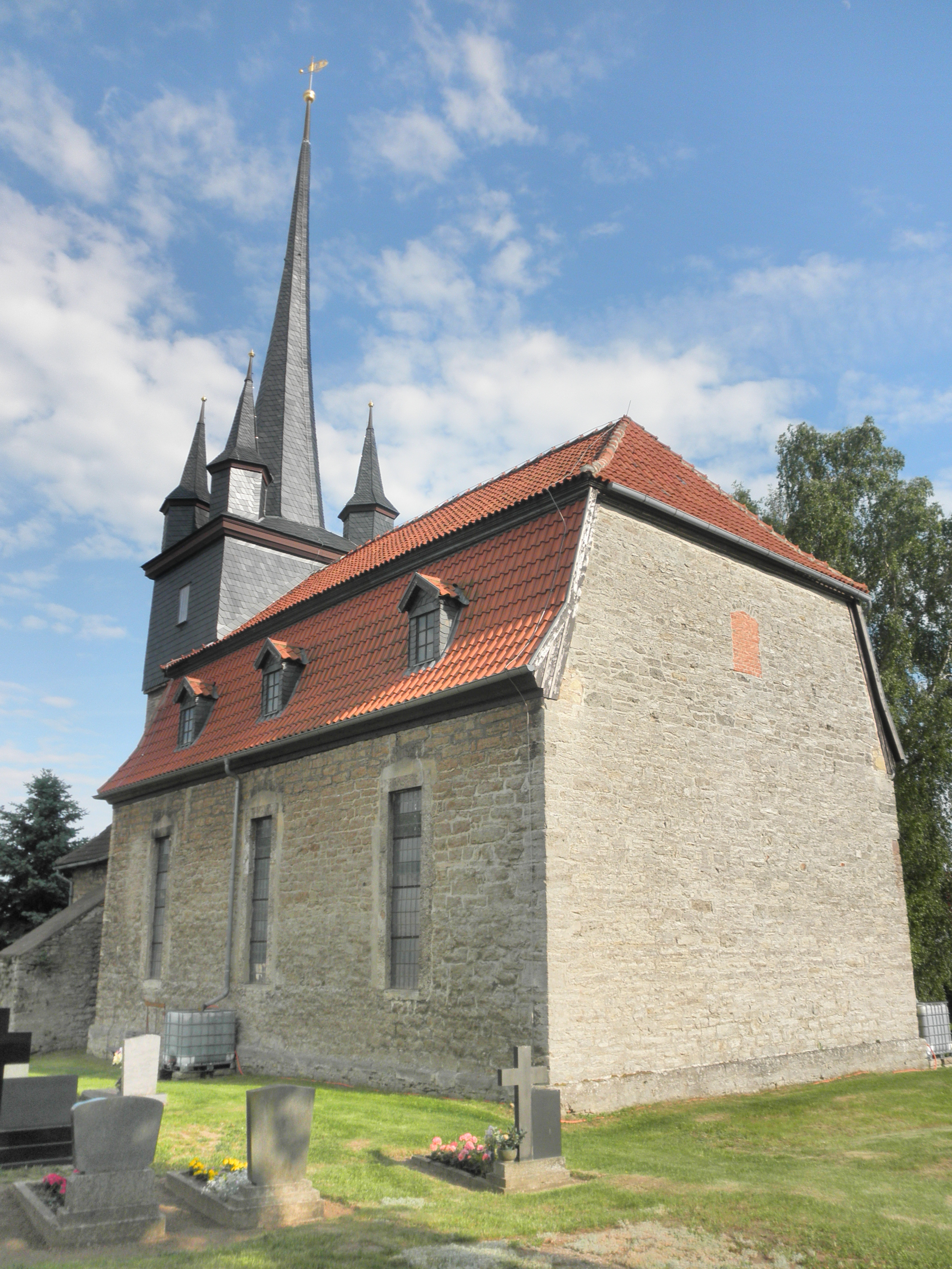 Church in Feldengel (Großenehrich) in Thuringia